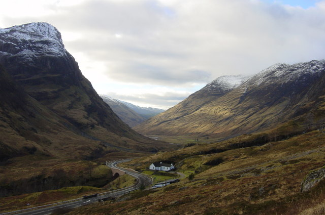 A 82 Through Glen Coe Glen Coe is a valley of outstanding natural beauty which runs for about 10 miles from Rannoch Moor to Loch Leven.